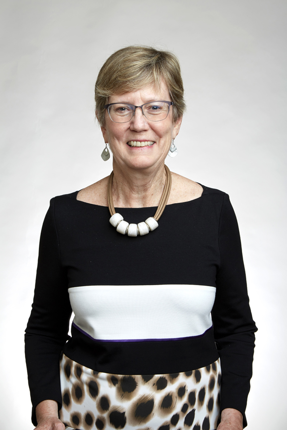 Nancy Margaret Reid is a Canadian theoretical statistician Attribution: The Royal Society